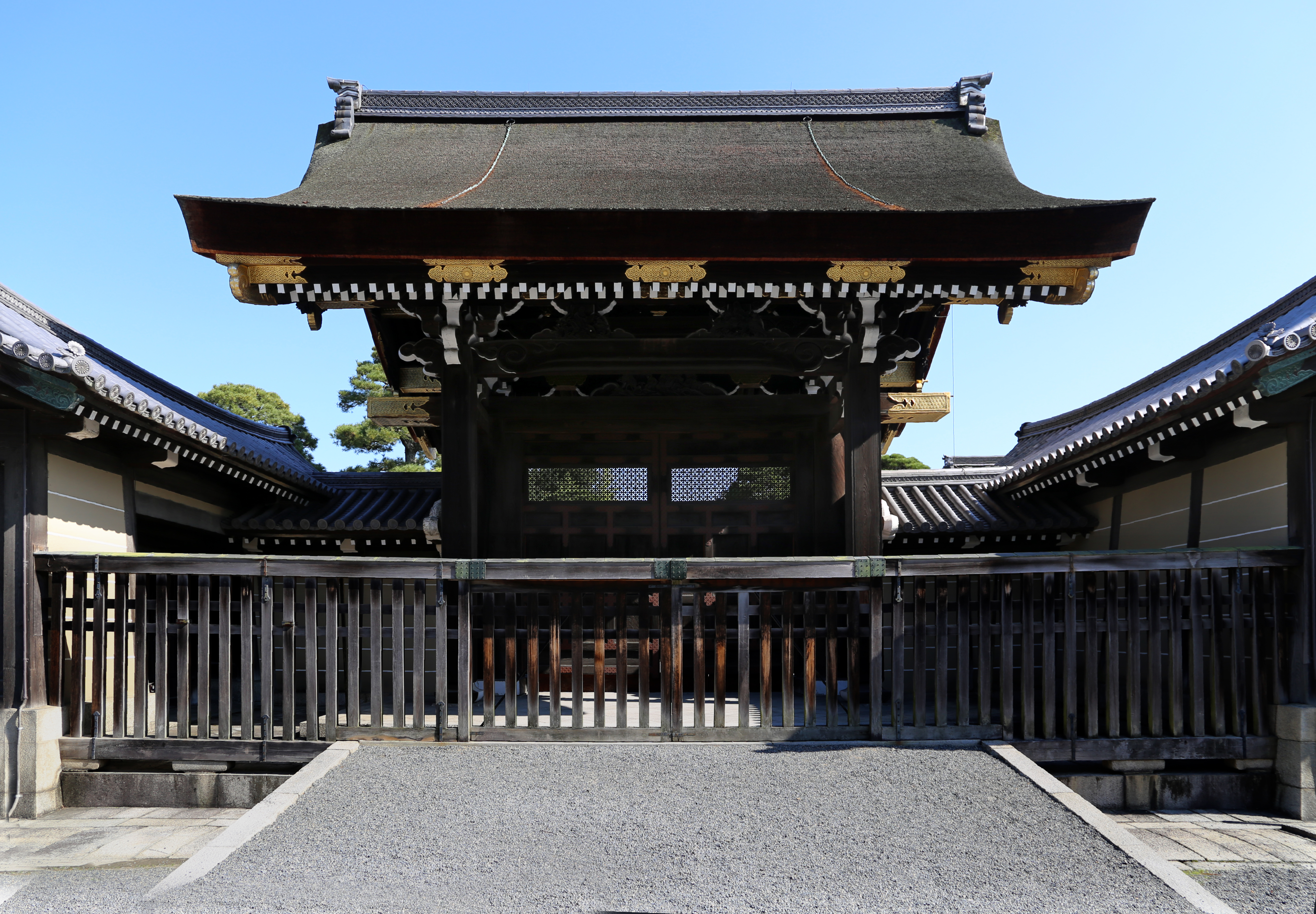 Kyoto Imperial Palace